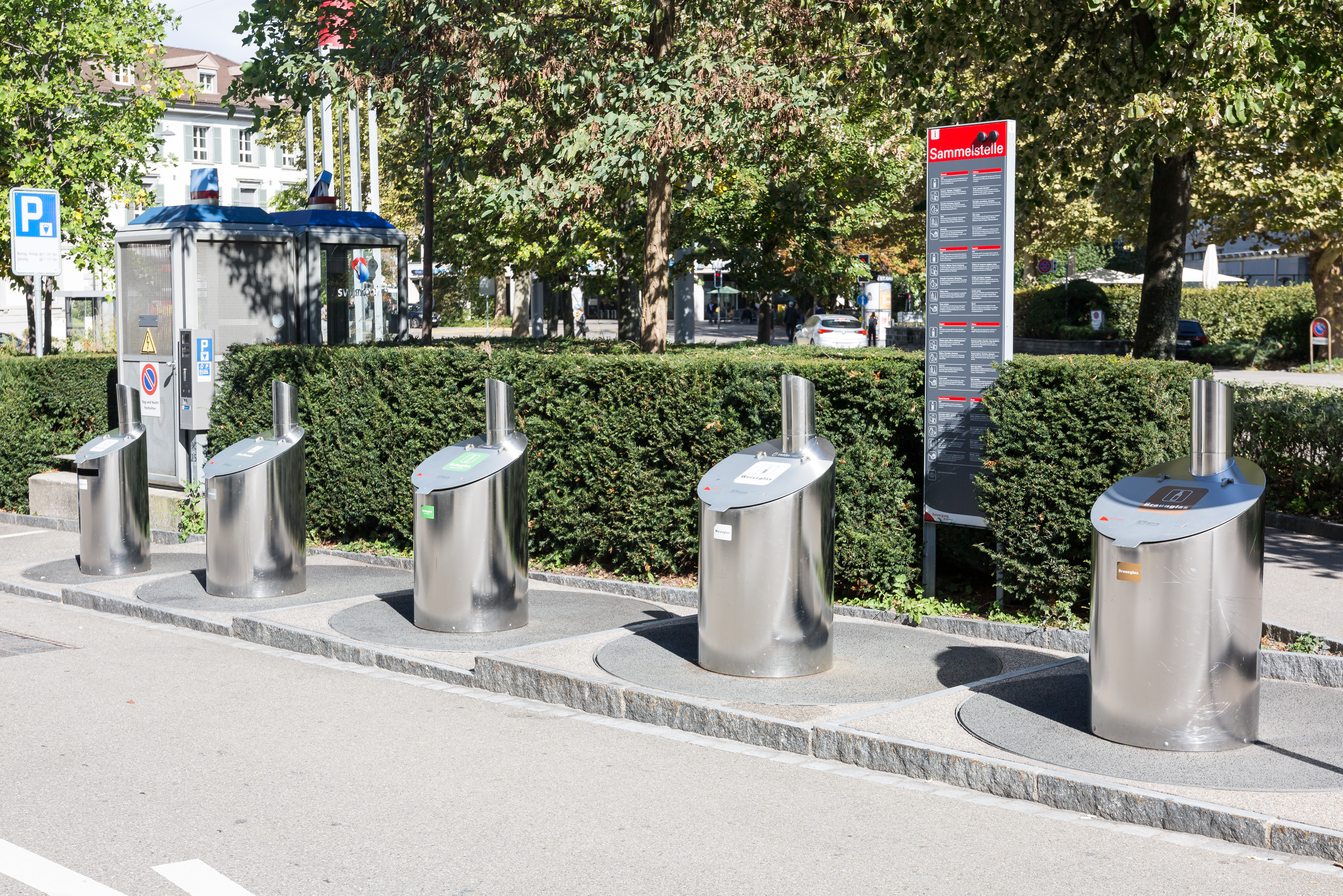 Underground sorted waste containers in St. Gallen